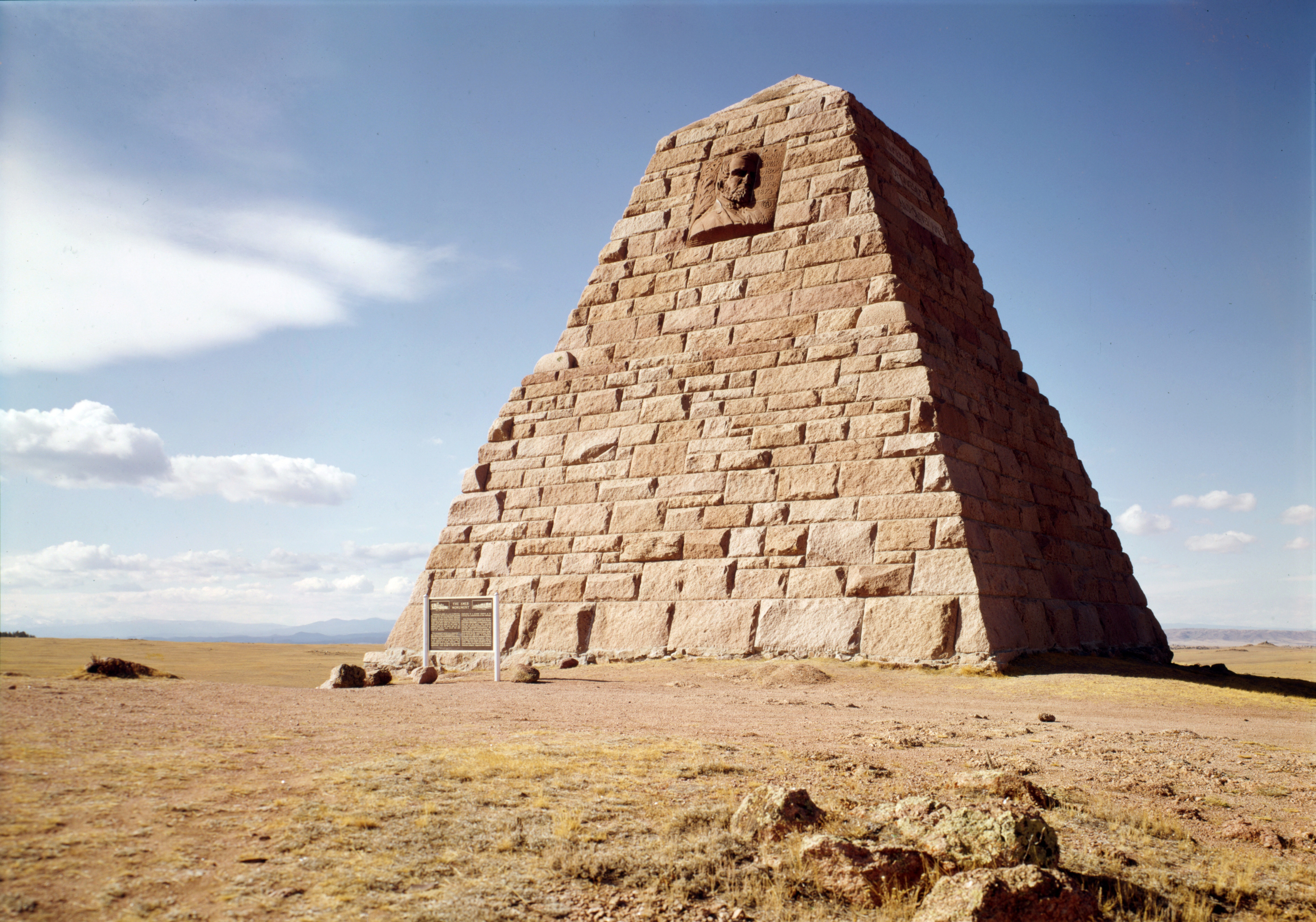 The Ames Monument — 20 miles east of Laramie, in Albany County, Wyoming. By architect H. H. Richardson and sculptor Augustus Saint-Gaudens. Image courtesy of Historic American Buildings Survey—HABS (1974).